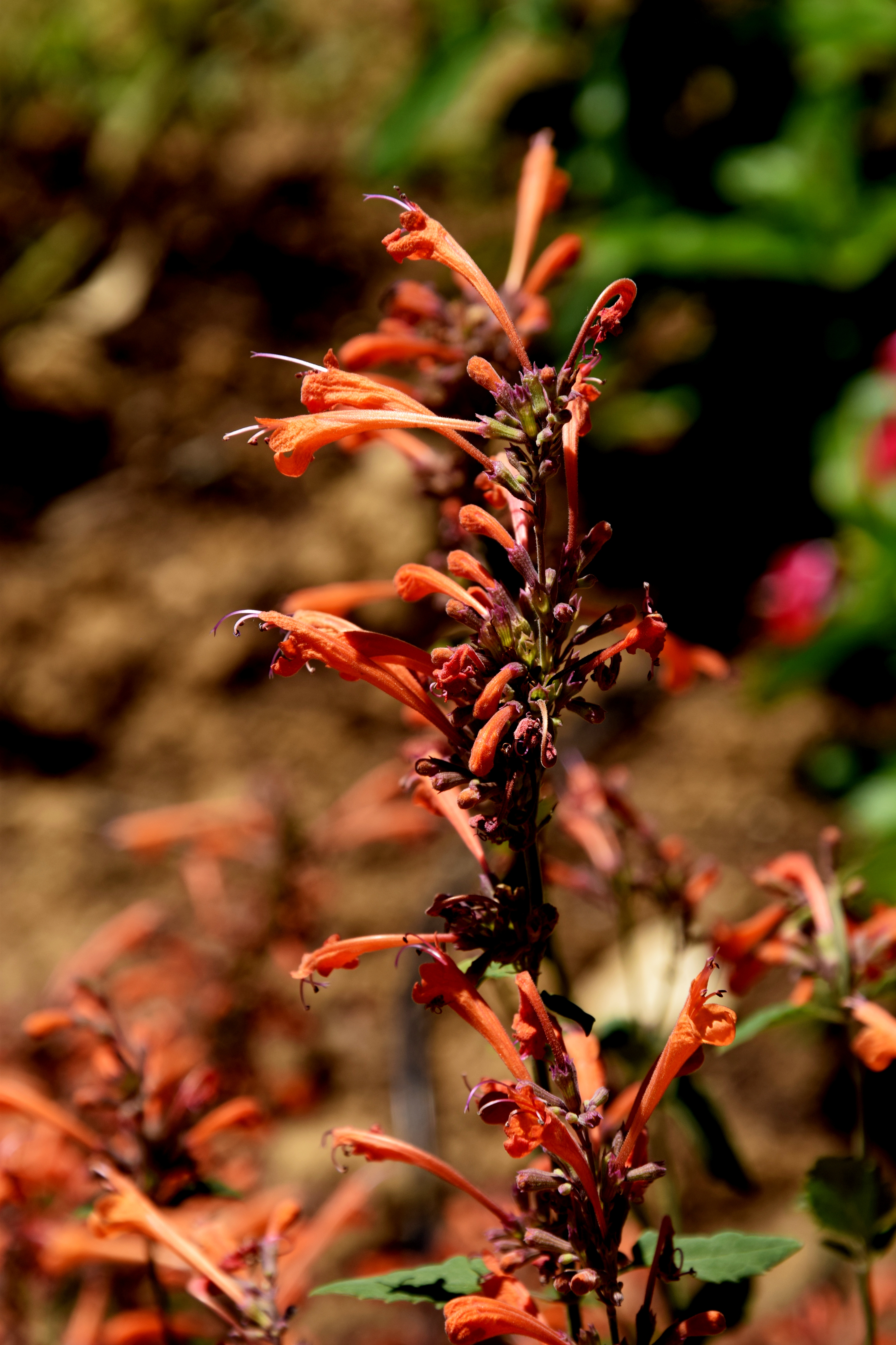 Agastache 'Kudos Mandarin' in Jardin aux Plantes parfumées la Bouichere, Limoux, Aude, France